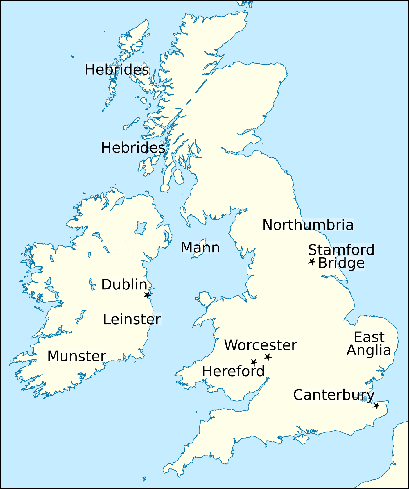 Map showing various places mentioned in the Wikipedia article Gofraid mac Amlaíb meic Ragnaill.